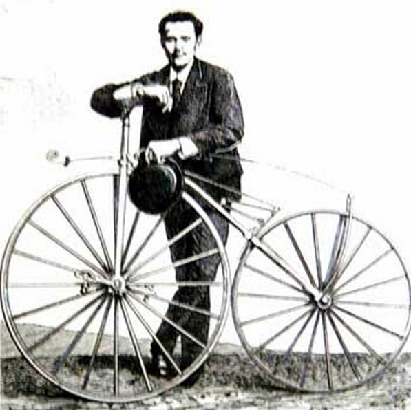 Photograph of Ernest Michaux and his Michaudine velocipede that he invented in 1861 in Paris. Origin unknown - assumed to be Michaux publicity shot.